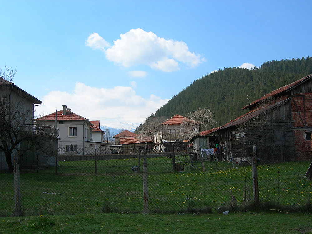 Street and houses in Govedartsi